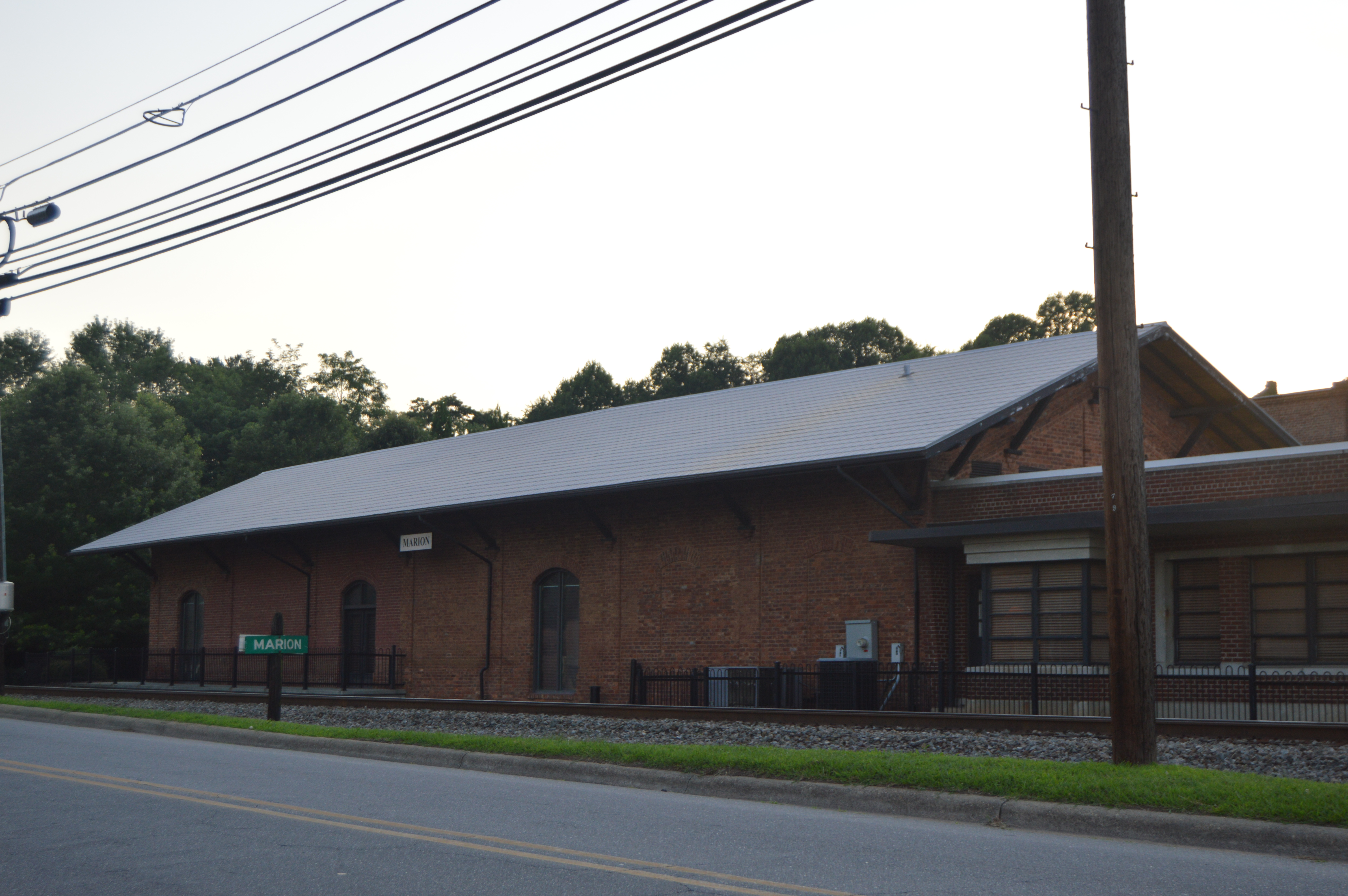 Southern side and northern end of the former Southern Railway Marion freight depot, located between Railroad and Henderson Streets in Marion, North Carolina, United States. Built in 1935, it is the center of the Depot Historic District, a historic district that is listed on the National Register of Historic Places.